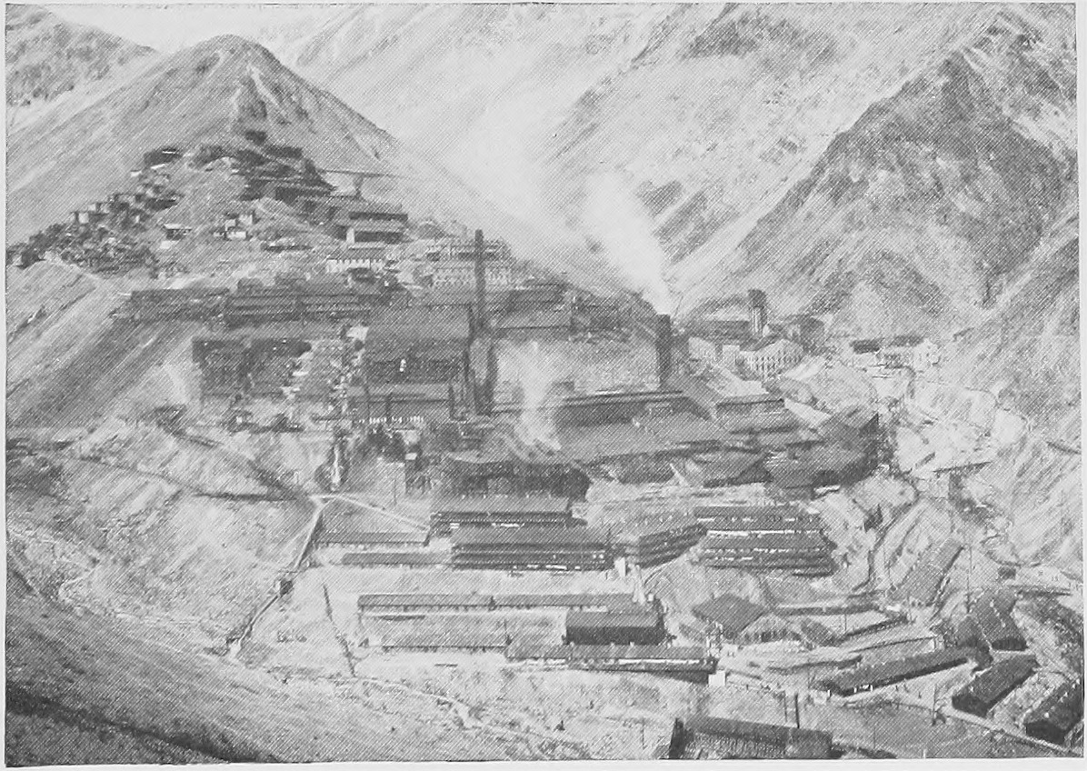 Identifier: cu31924021189315 Title: Chile today and tomorrow Year: 1922 (1920s) Authors: Joyce, Lilian Elwyn (Elliott), 1884- Subjects: Publisher: New York, The Macmillan company View Book Page: Book Viewer About This Book: Catalog Entry View All Images: All Images From Book Click here to view book online to see this illustration in context in a browseable online version of this book. Text Appearing Before Image: Sewell Camp at Night. Text Appearing After Image: Sewell (El Teniente Copper Mines) near Rancagua. MINING 179 way line to Rancagua, at a spot where the junction ofthe Coya and a canal from the Cachapoal River formsa waterfall of 422 feet, yielding hydraulic power suffi-cient for the generation of 40,cxx5 H.P. A new powerhouse recently completed, on the Pangal River, an-other near-by Andean torrent joining the Cachapoaland Coya, adds to the equipment by which the BradenCompany contemplates 10,000 tons of daily crushing,operations which should result in the production ofover 70,000 tons of bar copper each year. Paralysationof international markets has so far checked the material-isation of these plans, and during 1921 the plant wasoperated at no more than half its capacity. The mostprosperous year which the mine has had so far was thatof 1918, when El Teniente produced nearly 35,000metric tons of bar copper, out of the Chilean total pro-duction of rather more than 102,200 tons: a year later,1919, the Braden Company sold and shipped onl